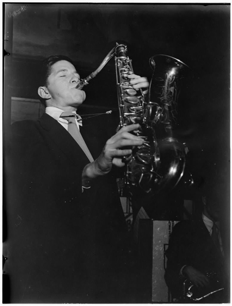 Allen Eager at the Arcadia Ballroom, New York, c. May 1947